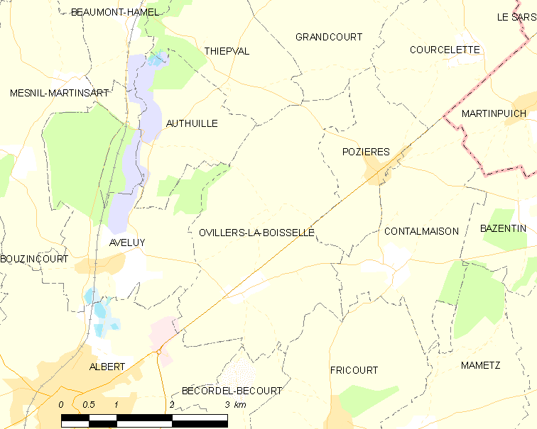 Map of French municipality Ovillers-la-Boisselle